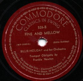 Label of a Commodore Records 78 record by Billie Holiday.